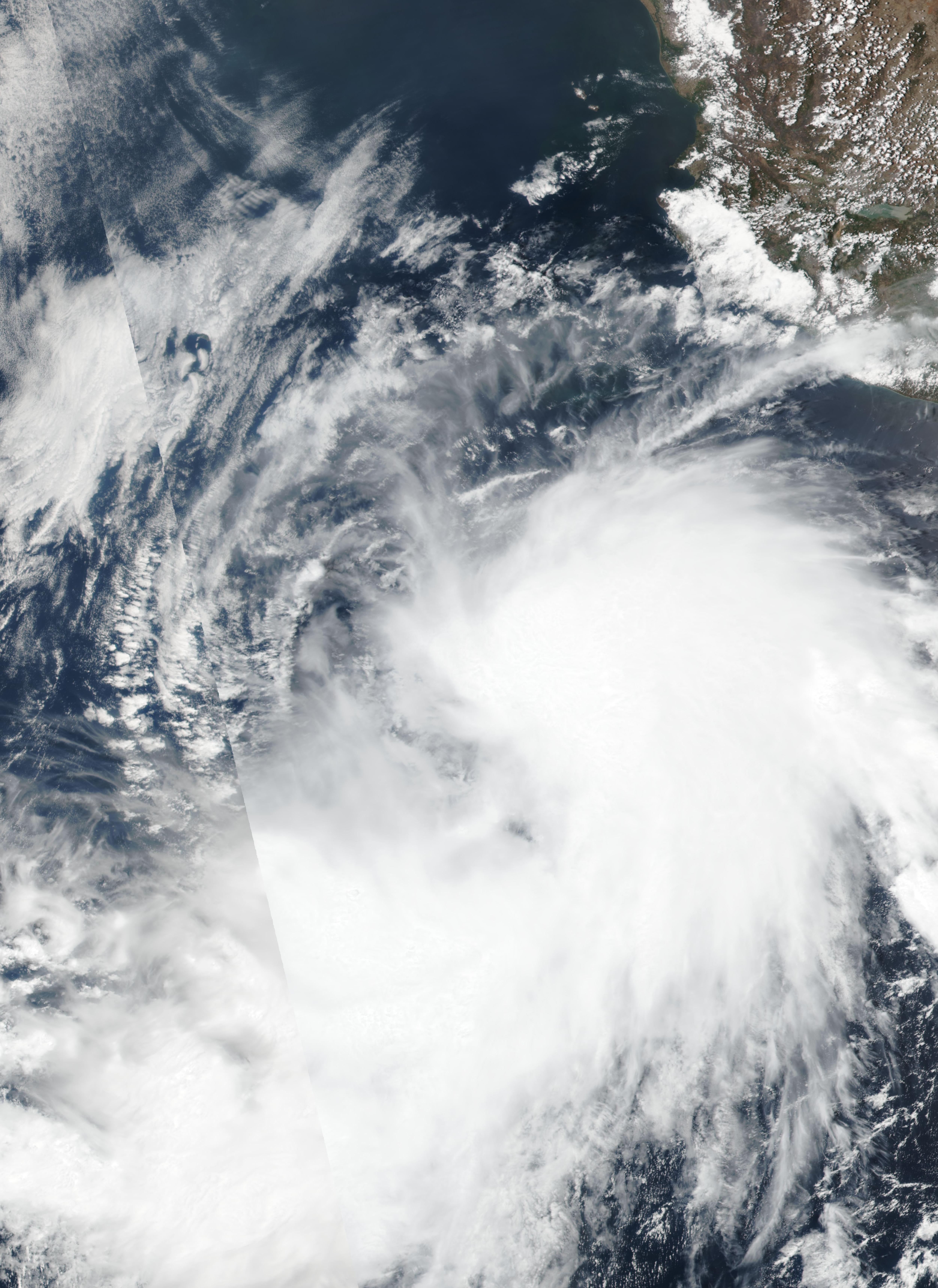 Suomi NPP visible imagery of Tropical Storm Aletta at 19:52z on June 6, 2018.